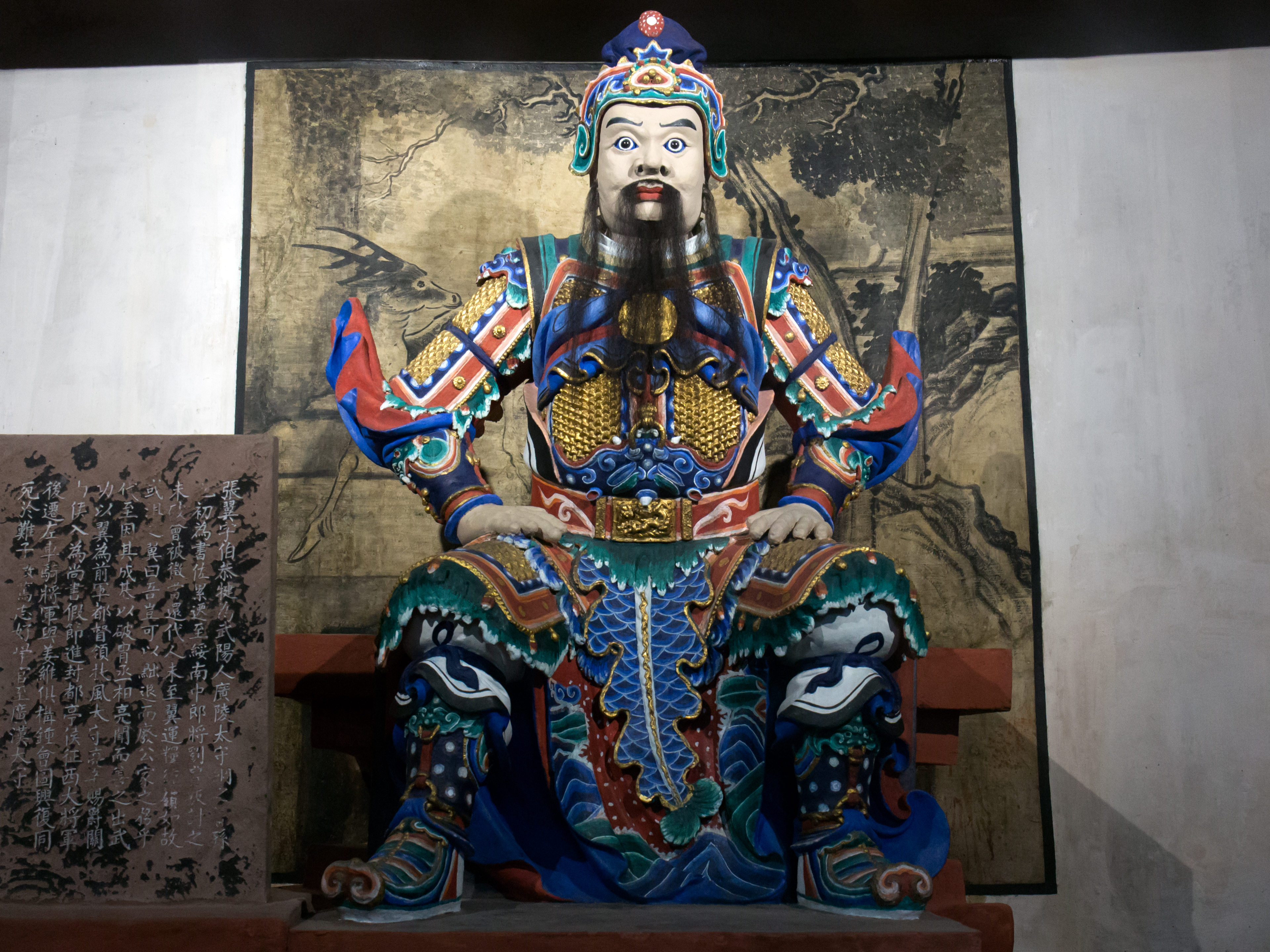 Zhang Yi (張翼) of Shu Han